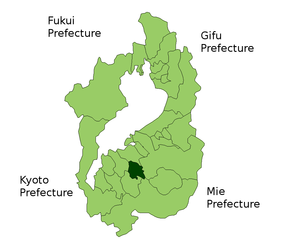 Location Map of Ryuo in Shiga Prefecture, Japan